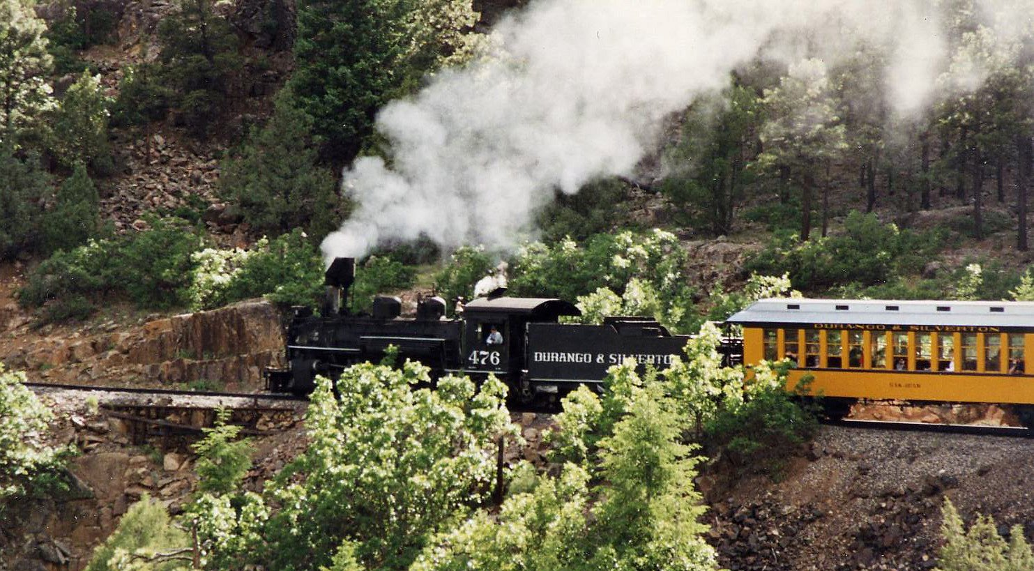 Durango & Silverton Engine 476. My brother, son and I took the spectacular trip in 2000. We left the Jeep in Silverton, stayed in a Durango motel overnight, and rode back the next day. This trip was one of the most memorable journeys of my life. My brother took the photo on Kodacolor with his Minolta and I scanned a 4x6 print